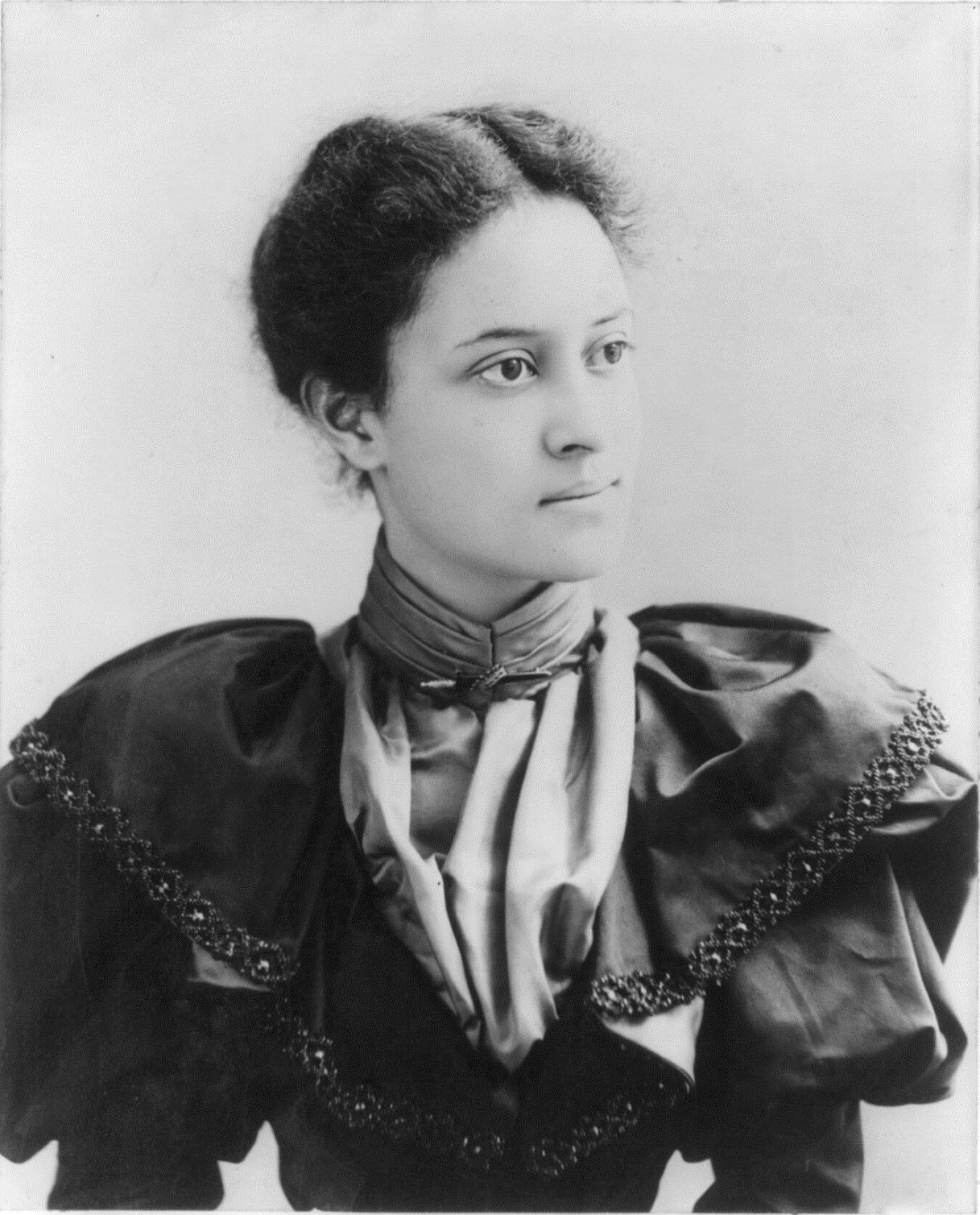 Princess Kaʻiulani of Hawaiʻi (1875-1899)